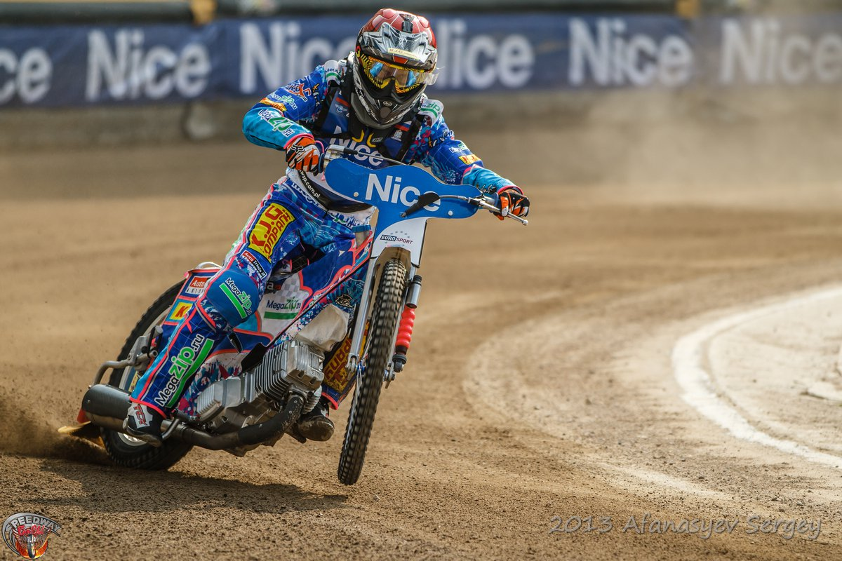 Grigory Laguta. 2nd final of Individual Speedway European Championship 2013. Togliatti, Russia